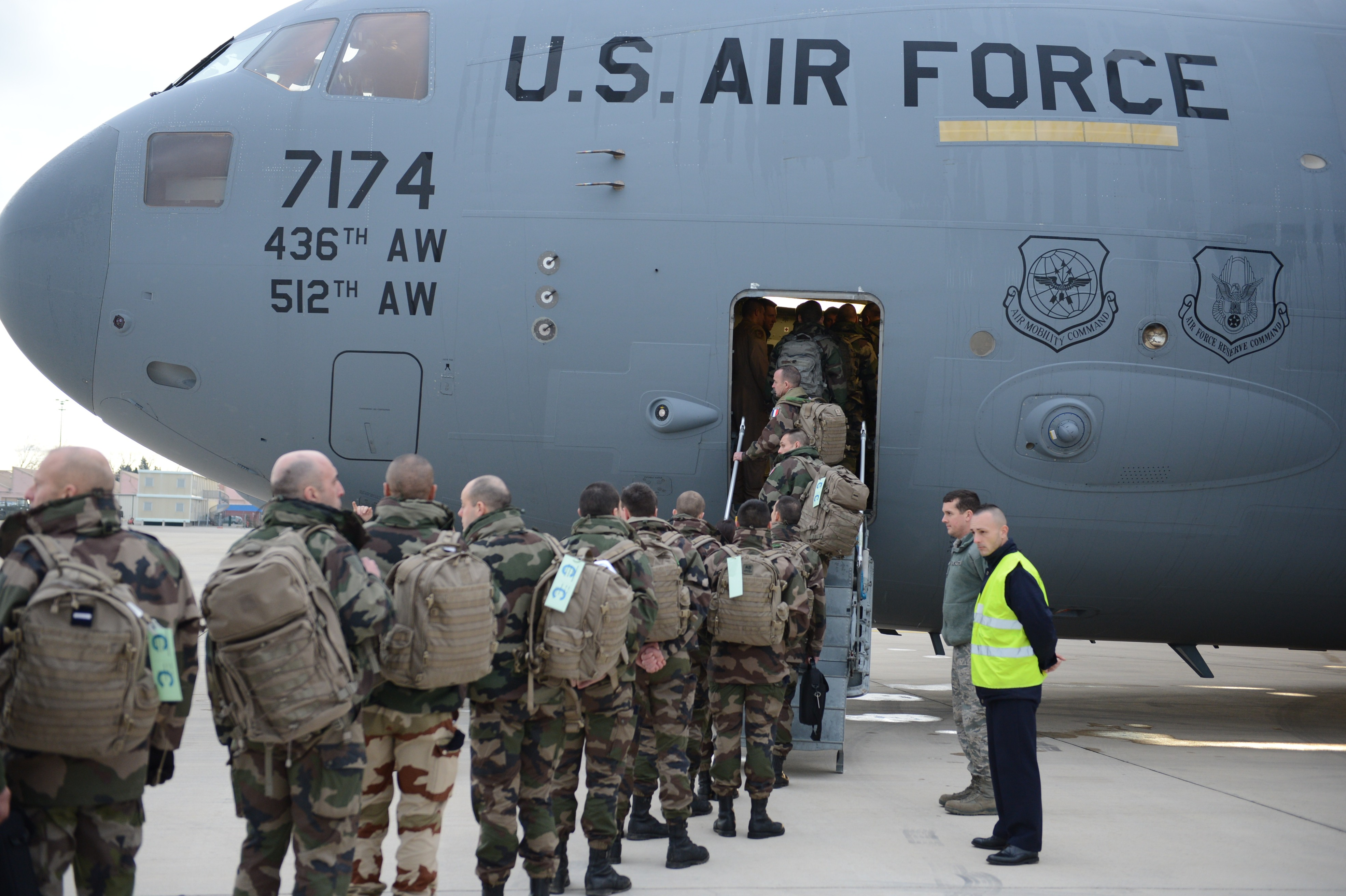 In this photo taken in Istres January 21, French troops board a U.S. Air Force C-17 Globemaster III cargo aircraft en route to Mali, France. The crew, out of Dover Air Force Base, Del., transported more than 80,000 pounds of equipment and over 40 French soldiers in the Air Force's first flight in support of the French military operation. The C-17 can carry up to 170,900 pounds of cargo, and can be configured for a variety of loadouts, including aeromedical evacuation, cargo transportation and passenger movement.